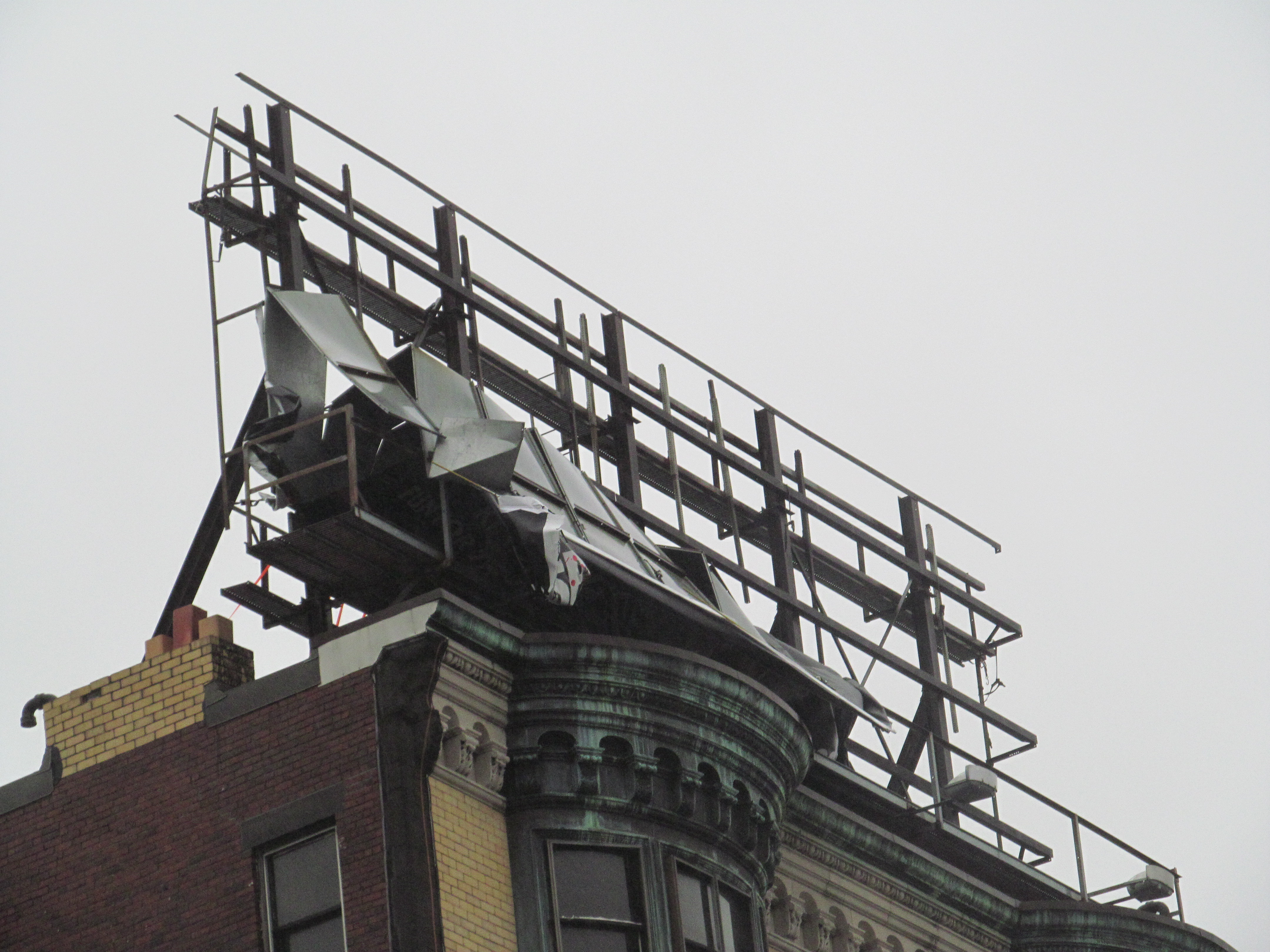 High winds from Hurricane Sandy destroyed a billboard in Kenmore Square in Boston